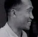 Newsreels in which Dutch subjects of a certain week are presented. 1) Indonesians repatriate from the Netherlands to their native country. Amongst them a former member of the Tweede Kamer (House of Representatives), R. Effendi. SHOTS: - in Batavia people go ashore with small boats; after their luggage has been checked by a customs officer they get into a steam train (from 00:16 Effendi). 2) from 00:48: the preparation of the local food tahoe (tofu) in the Indonesian countryside. SHOTS: in a manually operated mill two boys grind soybeans; a girl sieves the grains; in a second mill the grained soybeans are mixed with water and grinded a second time; the soybean porridge that has formed is boiled and transferred into a mould which is then wrapped in a piece of fabric; the moulds are put under a press to get the water out; the tahoe is laid to dry in big baskets in the sun and is then ready to be eaten. 3) from 01:30: the expansion of the stock: breeding stock that has been bought in Australia is brought in by ship. Airplanes are used to distribute the cattle across the archipelago. SHOTS: - a ship with cattle is unshipped: a crate containing a cow is loaded off the ship "Tubantia" with a crane and loaded into a lorry; - on deck are cages with pigs, chickens and rabbits; - Indonesian workers load the pigs into crates; - a pig in a crate is shoved into the door of an airplane; - the airplane (Dakota DC-3) takes off on a soggy airfield.